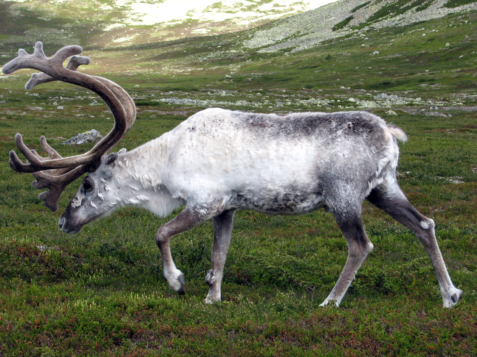 Reindeer